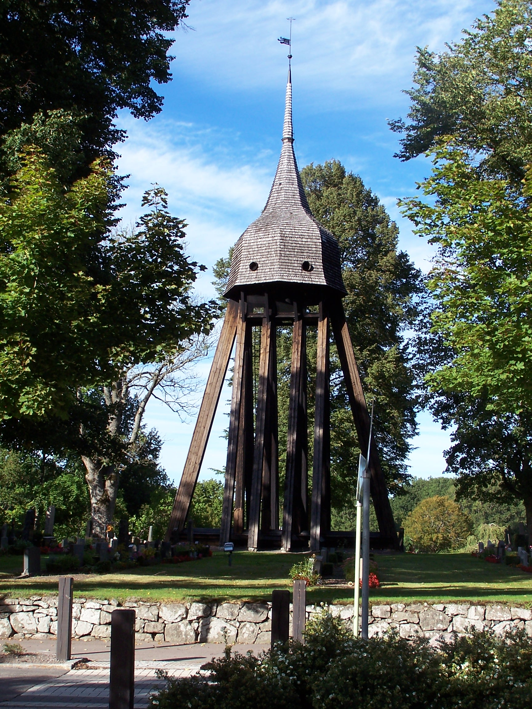 Torsås church, Sweden - Bell tower